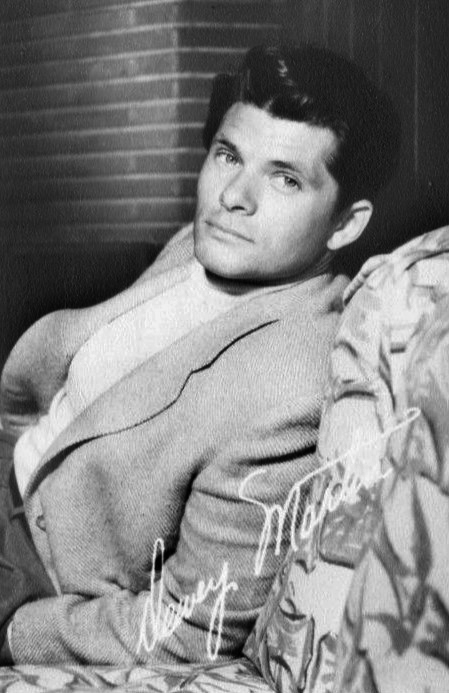 Photo postcard of Dewey Martin sent in response to fan mail.